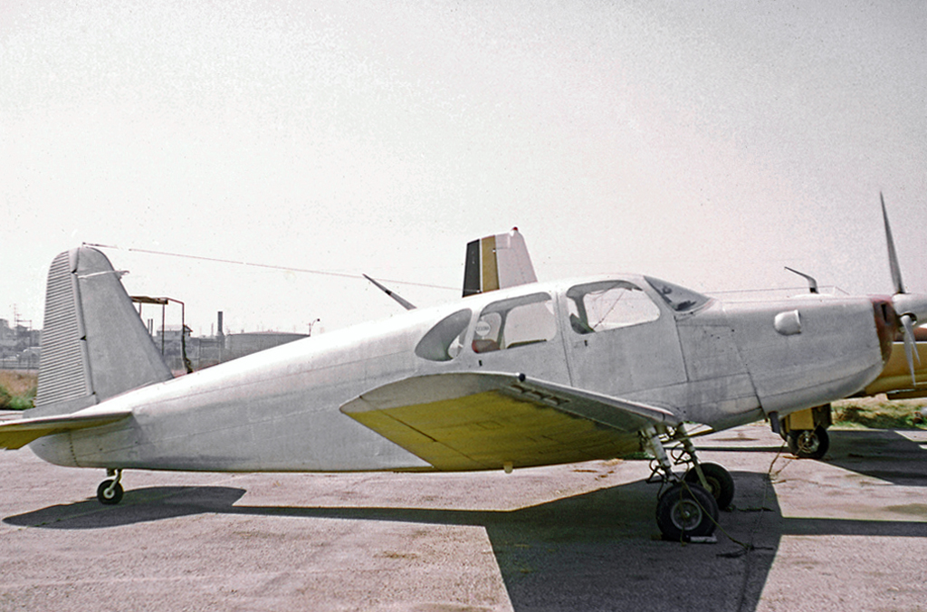 Atlas H-10, previously Harlow PJC-4, N37463 at Long Beach Airport, California in 1973.